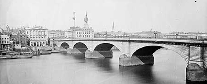 London Bridge circa 1870